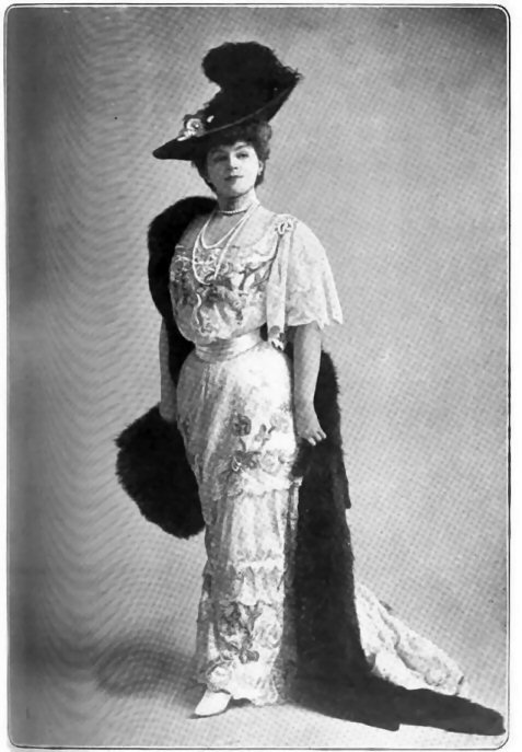 Gabrielle Réjane (undated photograph)